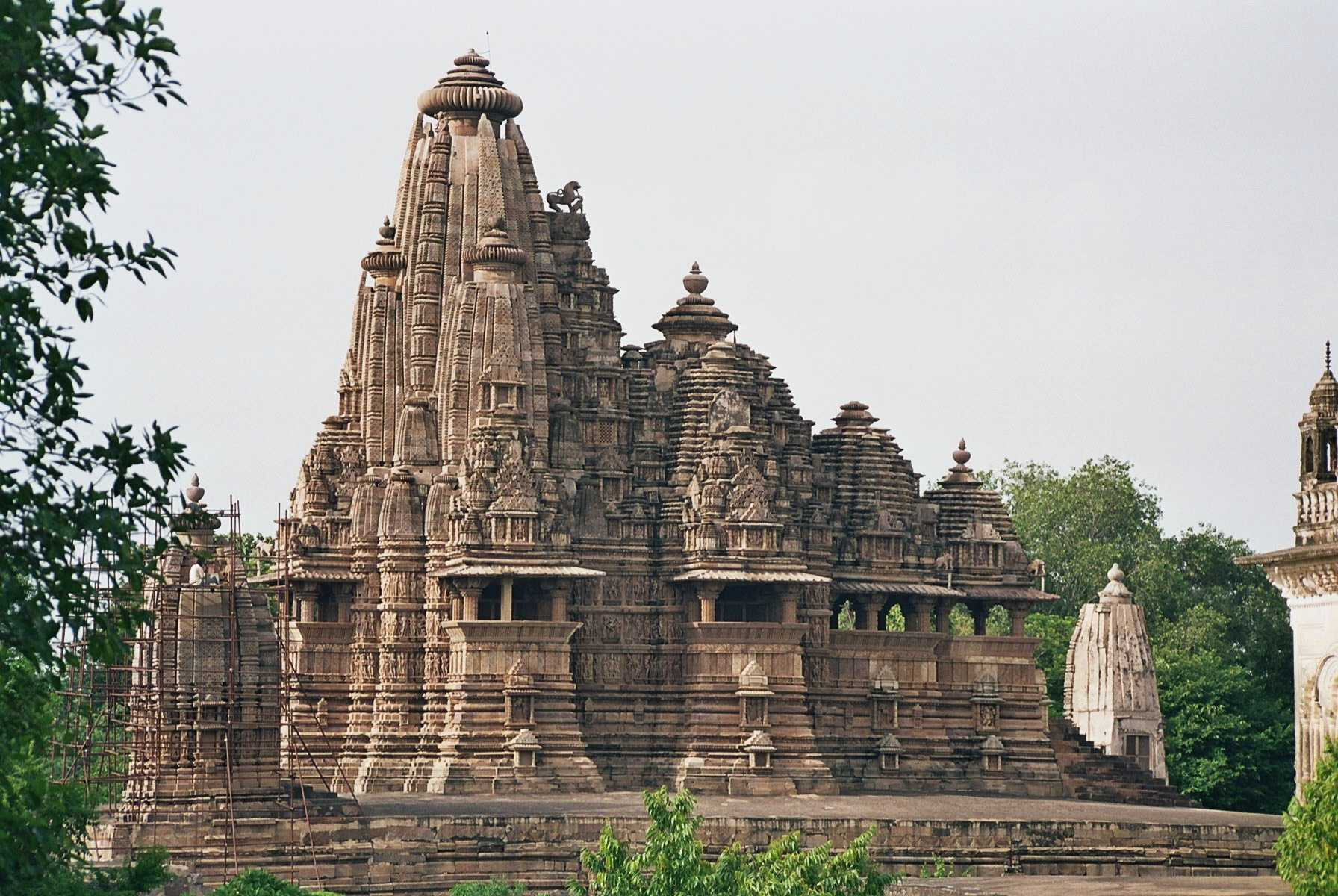 Khajuraho Vishvanath Temple, India Vishvanath Templo de Khajuraho, India. Picture take by User:Airunp